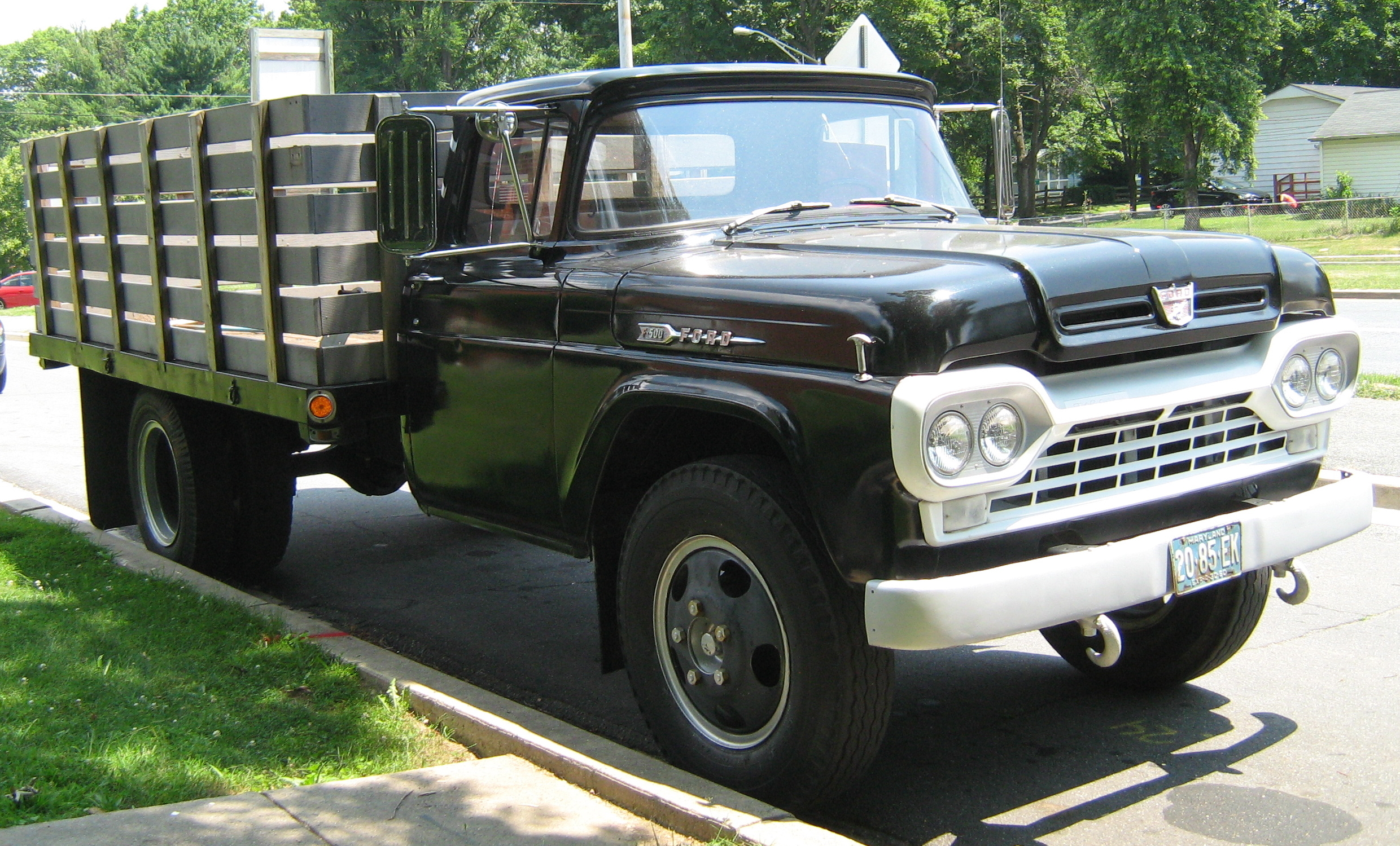 1960 Ford F-500 stake truck in black